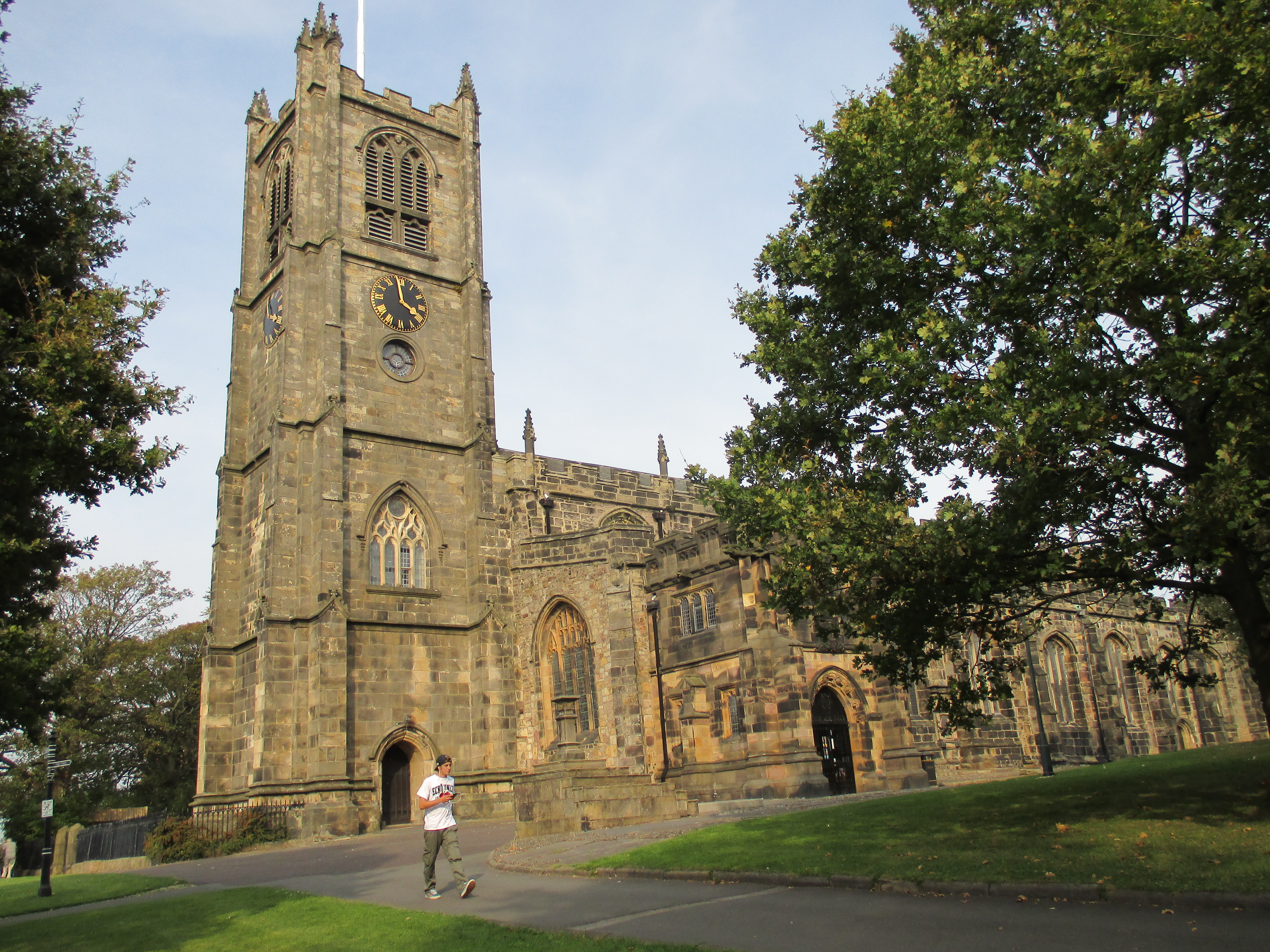 Lancaster Priory, photographed from the south-west.